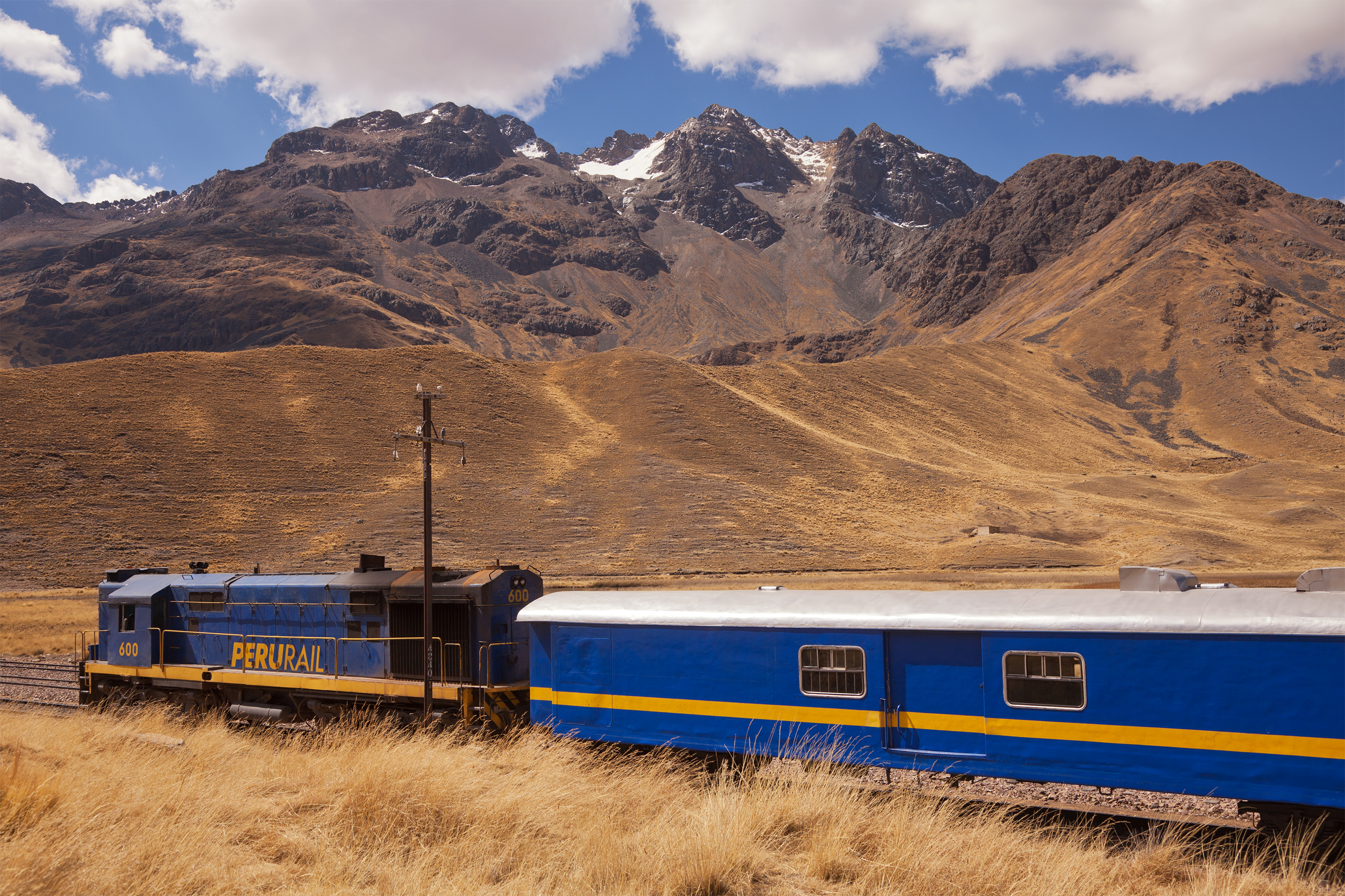 Train from Lake Titicaca to Cuzco, station in La Raya